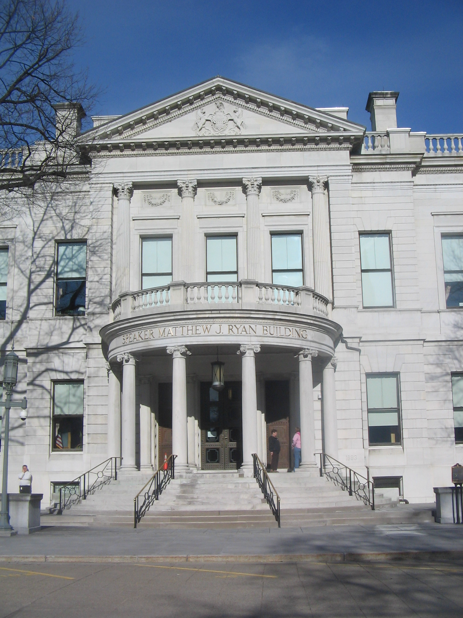 Matthew J. Ryan building (former Capitol Annex)on the grounds of the Pennsylvania State Capitol, Harrisburg, Pennsylvania, USA